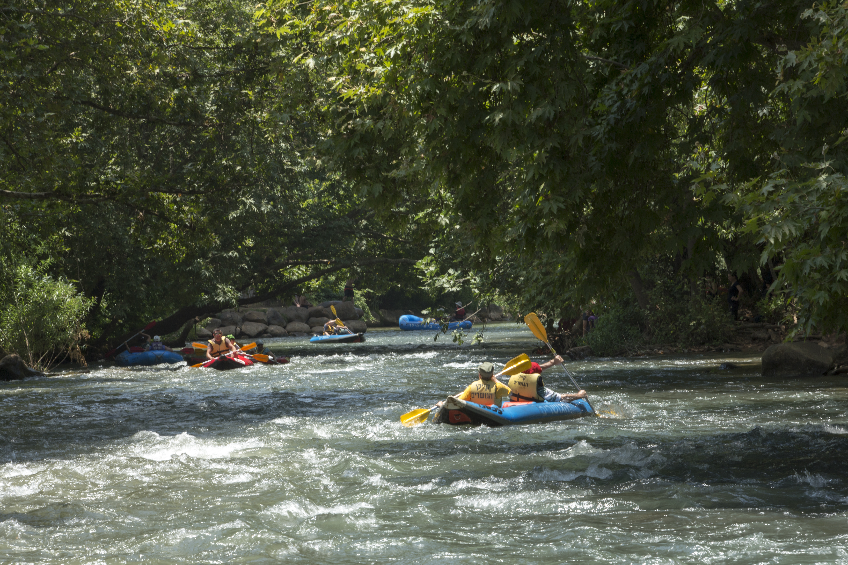 THe Jordan river in Northern Galilee is an excellent site for rafting with the family. The picture shows rafts that can be hired on the spot. Photo by Itamar Grinberg.